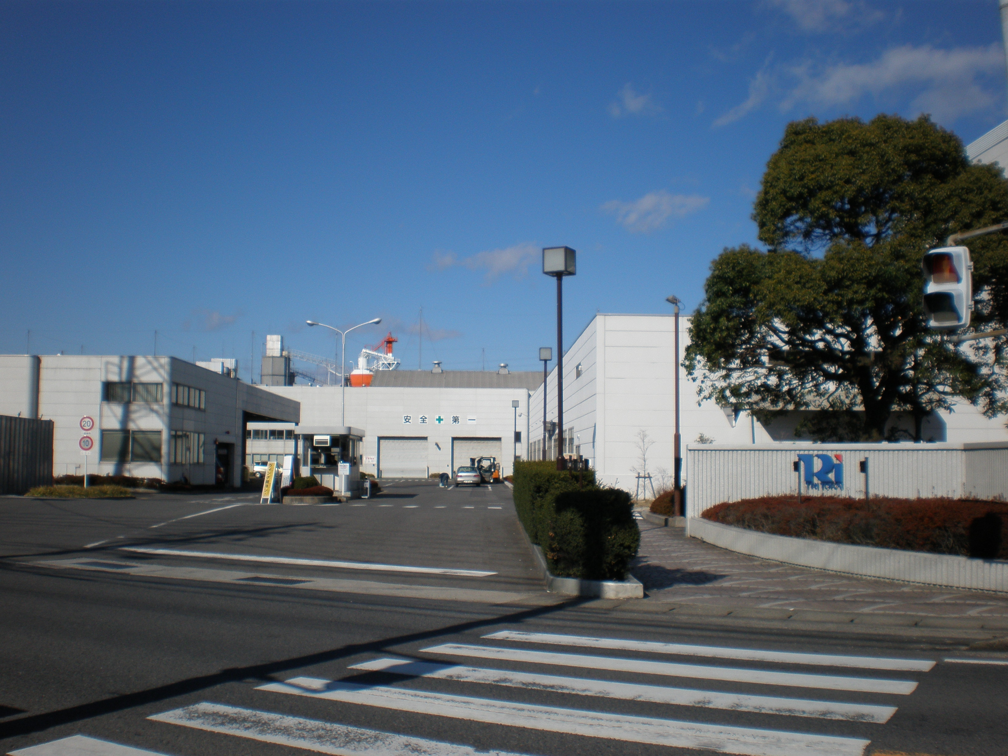 Main Factory of Tokai Rubber Industries, Ltd. at Aichi-prefecture, Japan.